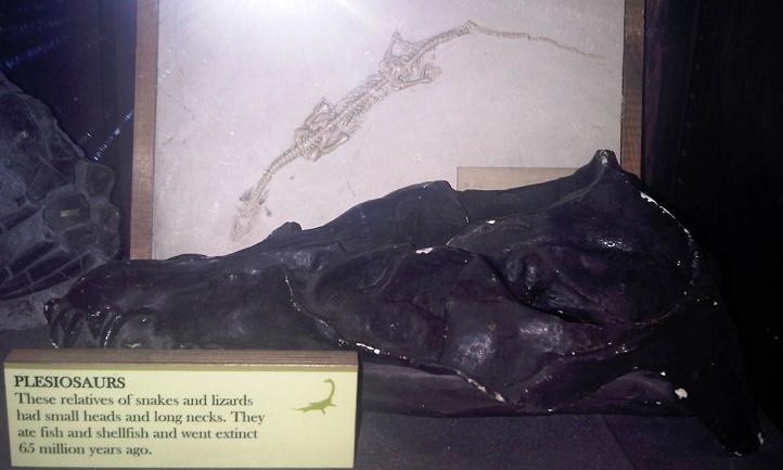 Anningasaura lymense skull cast in Grant Museum of Zoology, London, England.